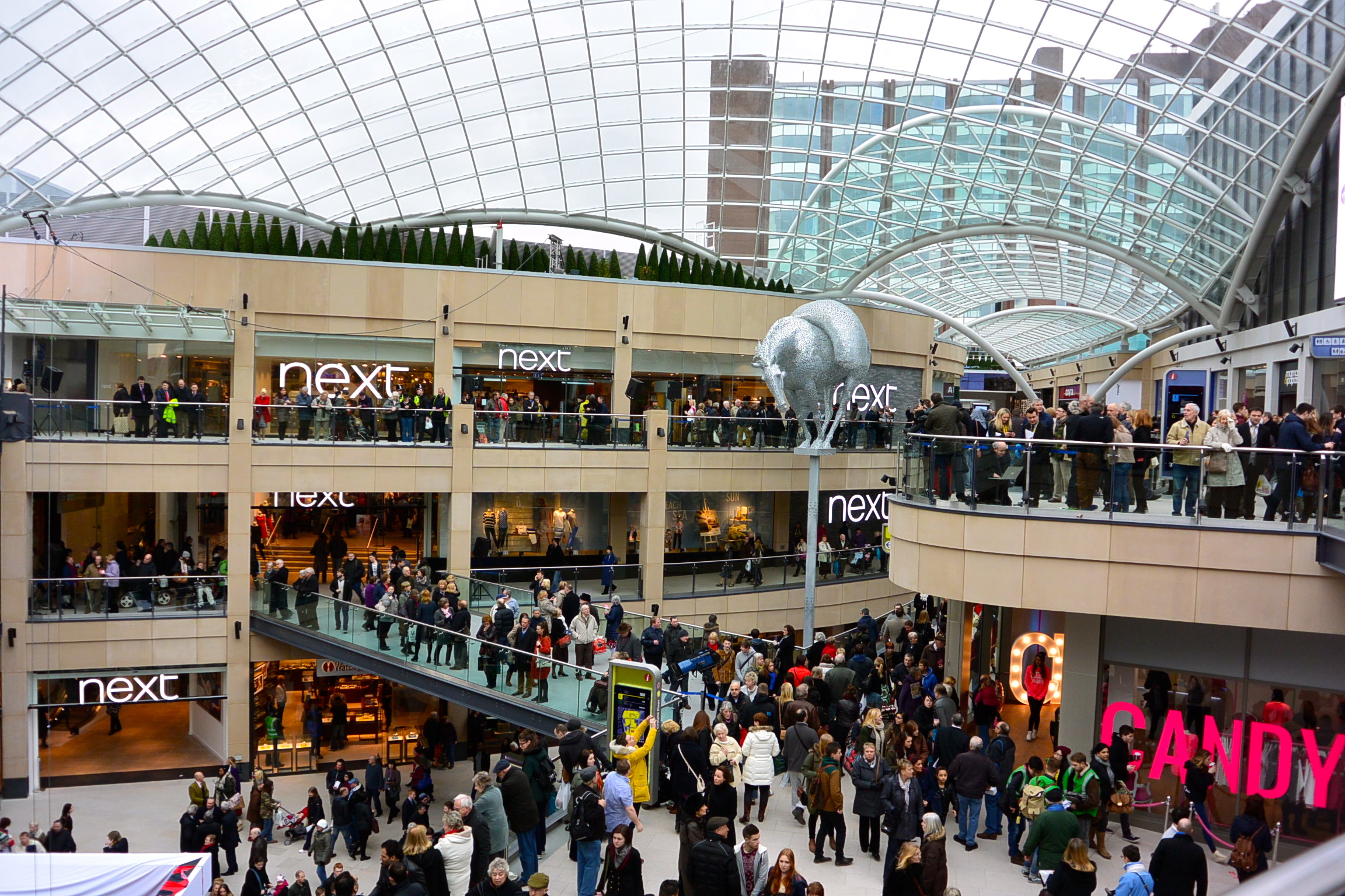 The opening day at Trinity Leeds. Taken by Flickr user:EG Focus on Thursday the 21st of March 2013.